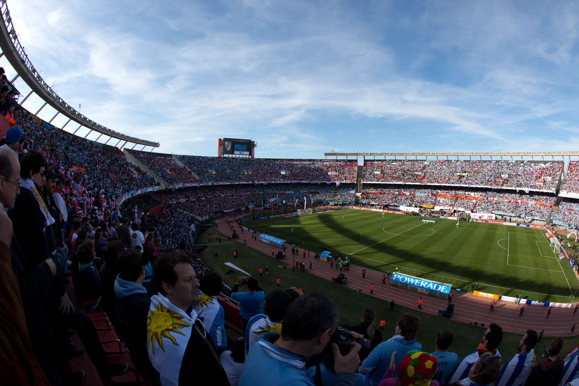 Estadio Monumental moments before the 2011 Copa America final between Uruguay and Paraguay.